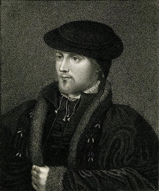 Portrait of a Man Called Cromwell, perhaps Sir Richard Cromwell (c.1510–1544), engraved by Luigi Schiavonetti.